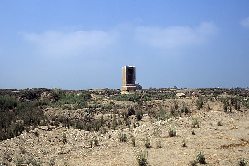 View to the hill of Tell el-Rub', Nile delta, Egypt